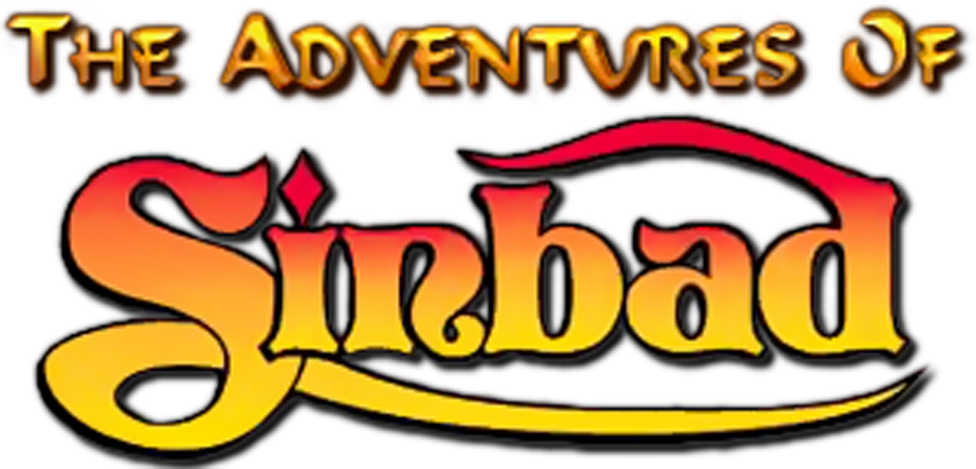 Logo of 1996 TV series The Adventures of Sinbad